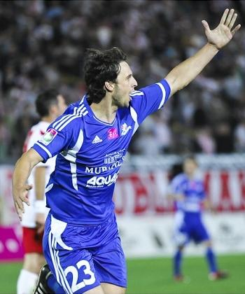 Róbert Demjan – Slovak forward.